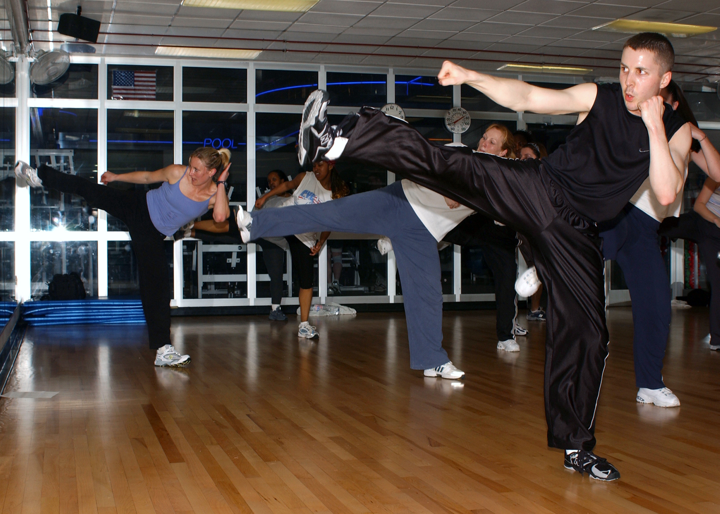 Naples, Italy (Mar. 29, 2004) - Lt. Dave Merrifield and other students enjoy a kickboxing workout from instructor Laura Galloway in the Fit Zone Gym aboard Naval Support Activity, Naples, Italy. Kickboxing and other aerobic fitness classes are offered to Sailors and their families by MWR to help promote a healthy lifestyle. U.S. Navy photo by Photographer's Mate 3rd Class Heather Warick. (RELEASED)